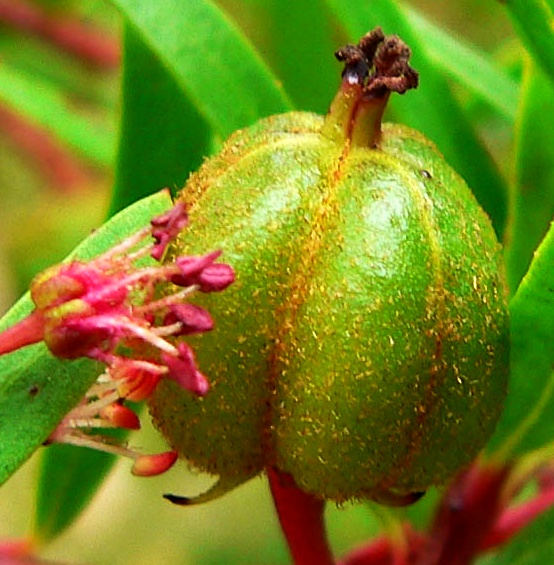 Photo of Tetracoccus dioicus at the Regional Parks Botanic Garden, taken July 2006 by User:Stan Shebs